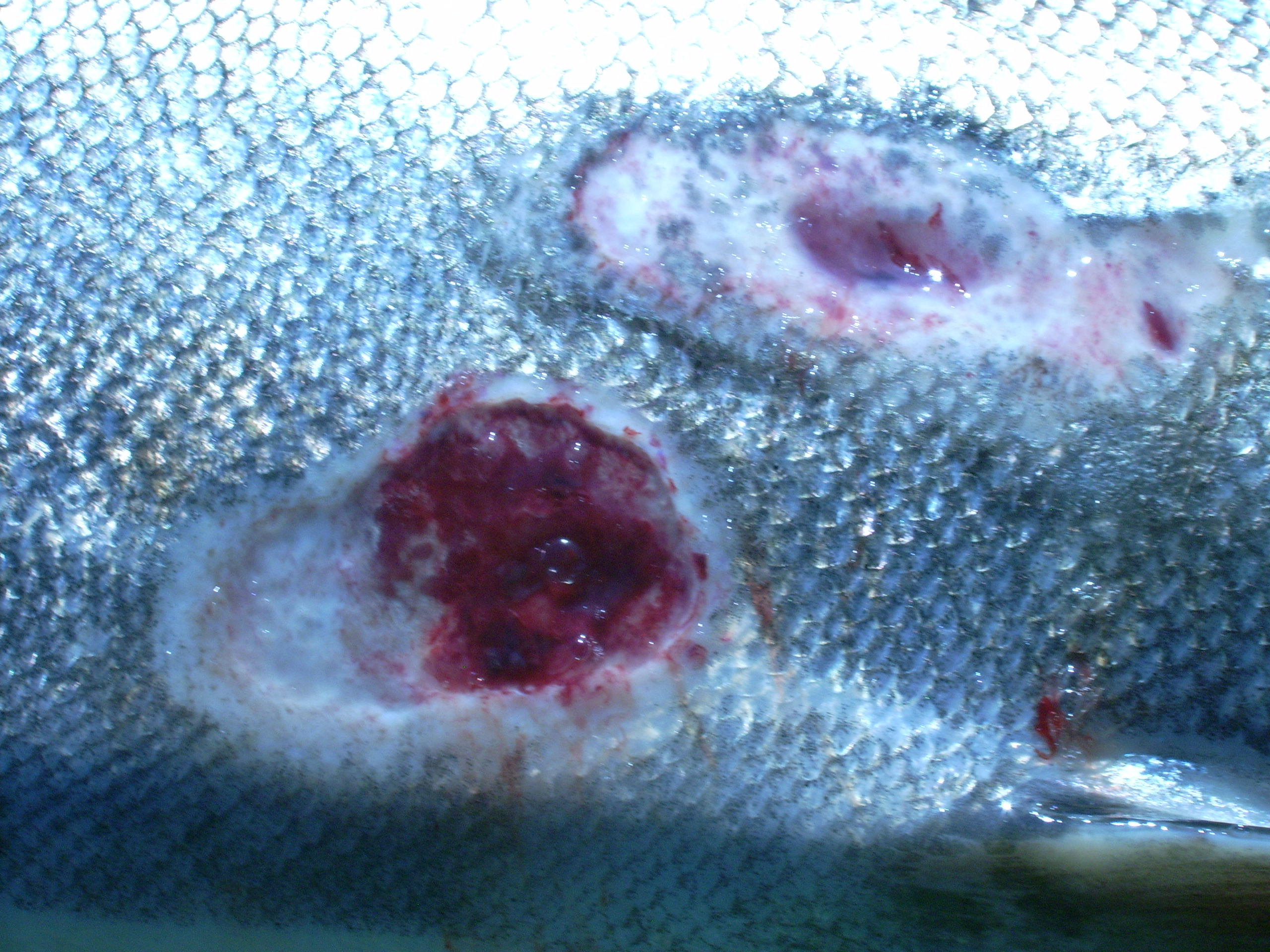 Sea lamprey wounds (Petromyzon marinus) on a Chinook salmon (Oncorhynchus tshawytscha), St. Mary's River-North Channel, Garden River First Nation